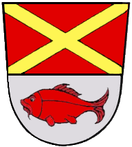 Coat of Arms of Unterbissingen